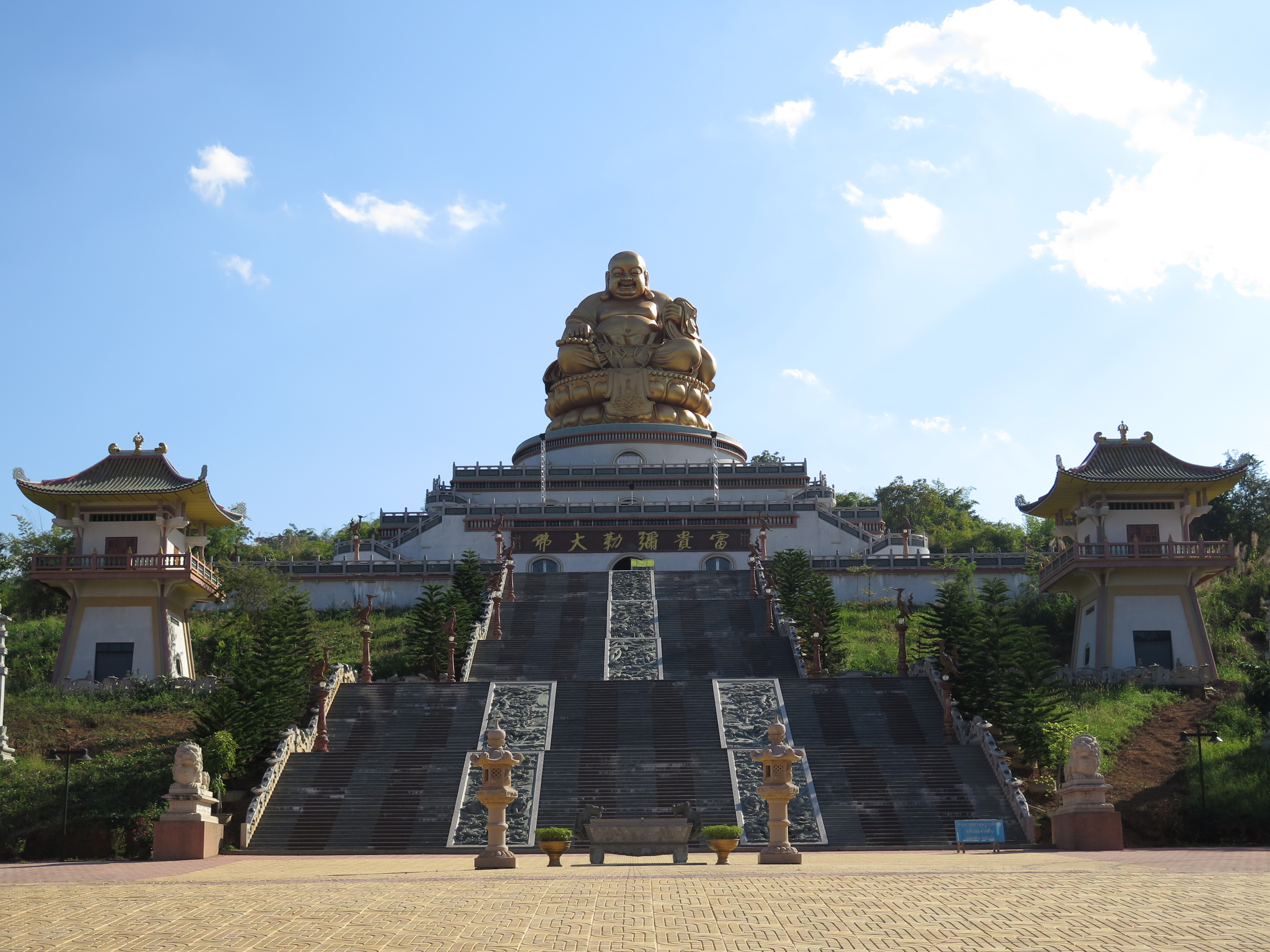 A Maitreya statue in rural Chiang Rai Province. This is not far SW of the Golden Triangle off the side of a side road on top of a hill. Thailand.